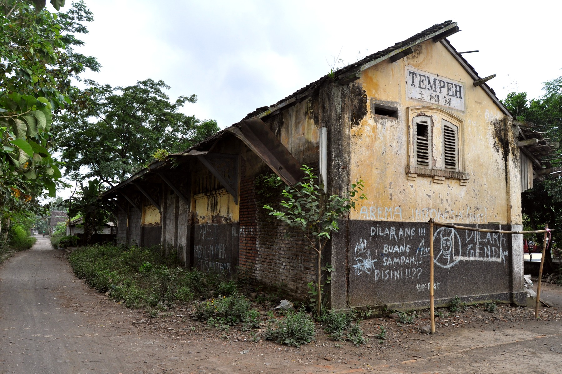 Ex Tempeh train station, closed since 1988, in Lumajang, East Java, Indonesia. Main building.